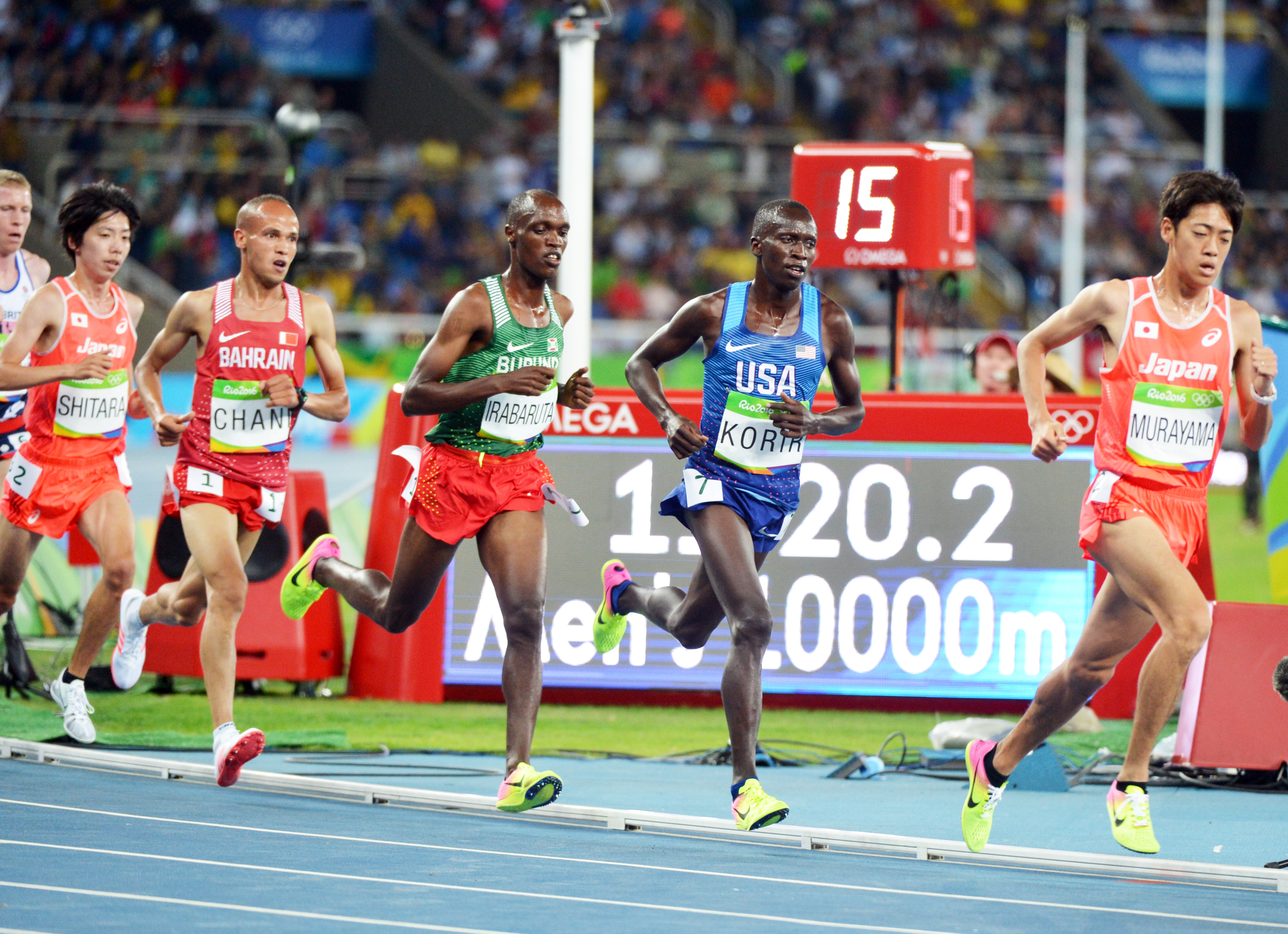 Spcs. Leonard Korir and Shadrack Kipchichir finish 14th and 19th respectively in the men's 3,000-meter run Aug. 13 at the 2016 Rio Olympic Games in Rio de Janeiro. Both Soldiers in the U.S. Army World Class Athlete Program turned in their season-best performaces, with Korir finishing in 27 minutes, 58.65 seconds and Kipchirchir clocked at 27:58.32. Mohamed Farah of Great Britain successfully defended his Olympic crown by winning the race in 27:05.17. Paul Kipnetech Tanui of Kenya took the silver in 27:05.64, and Tamirat Tola of Ethiopia claimed the bronze in 27:06.27.